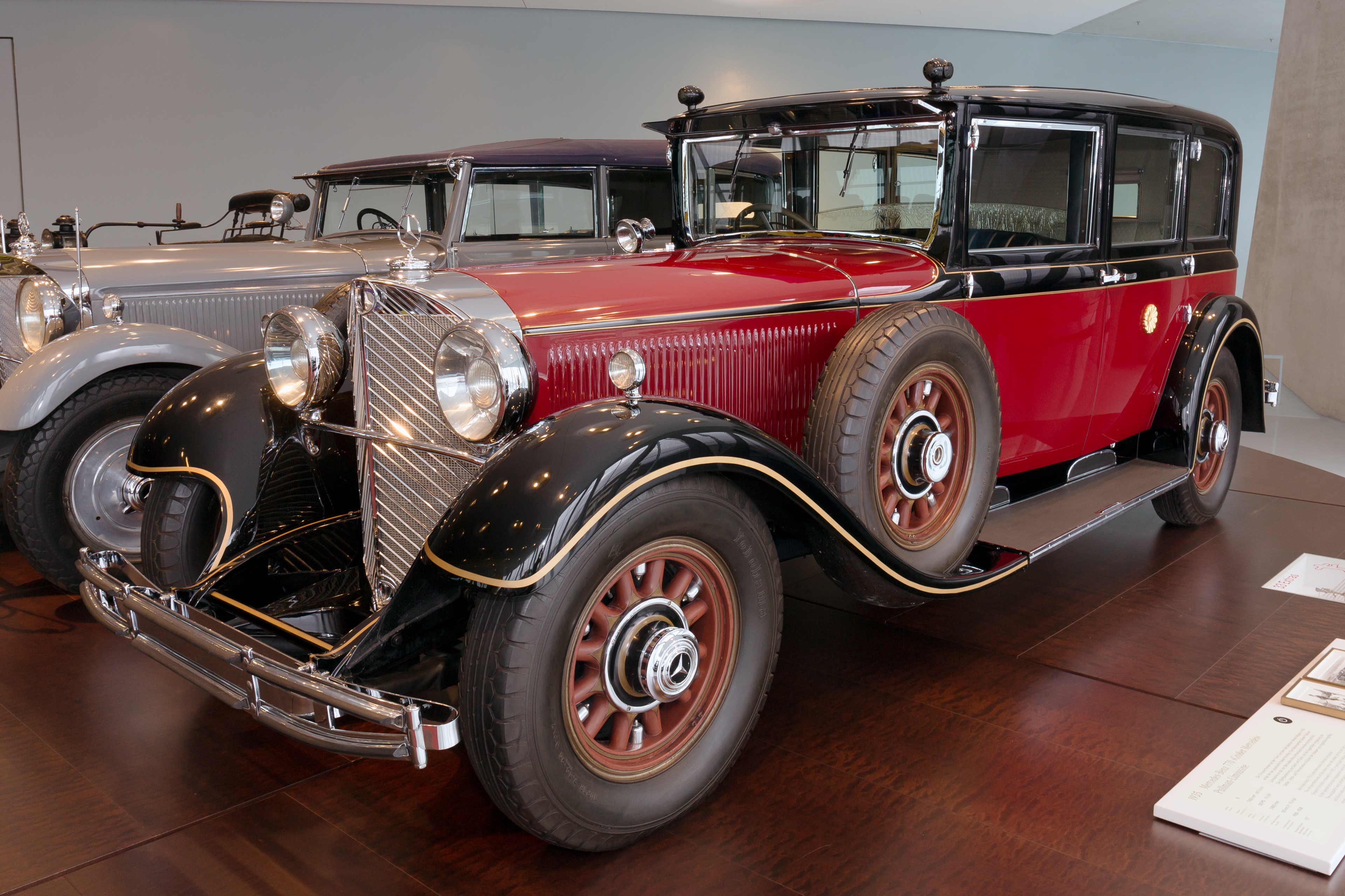 1935 Mercedes-Benz 770 Pullman-Limousine of the Emperor Hirohito of Japan